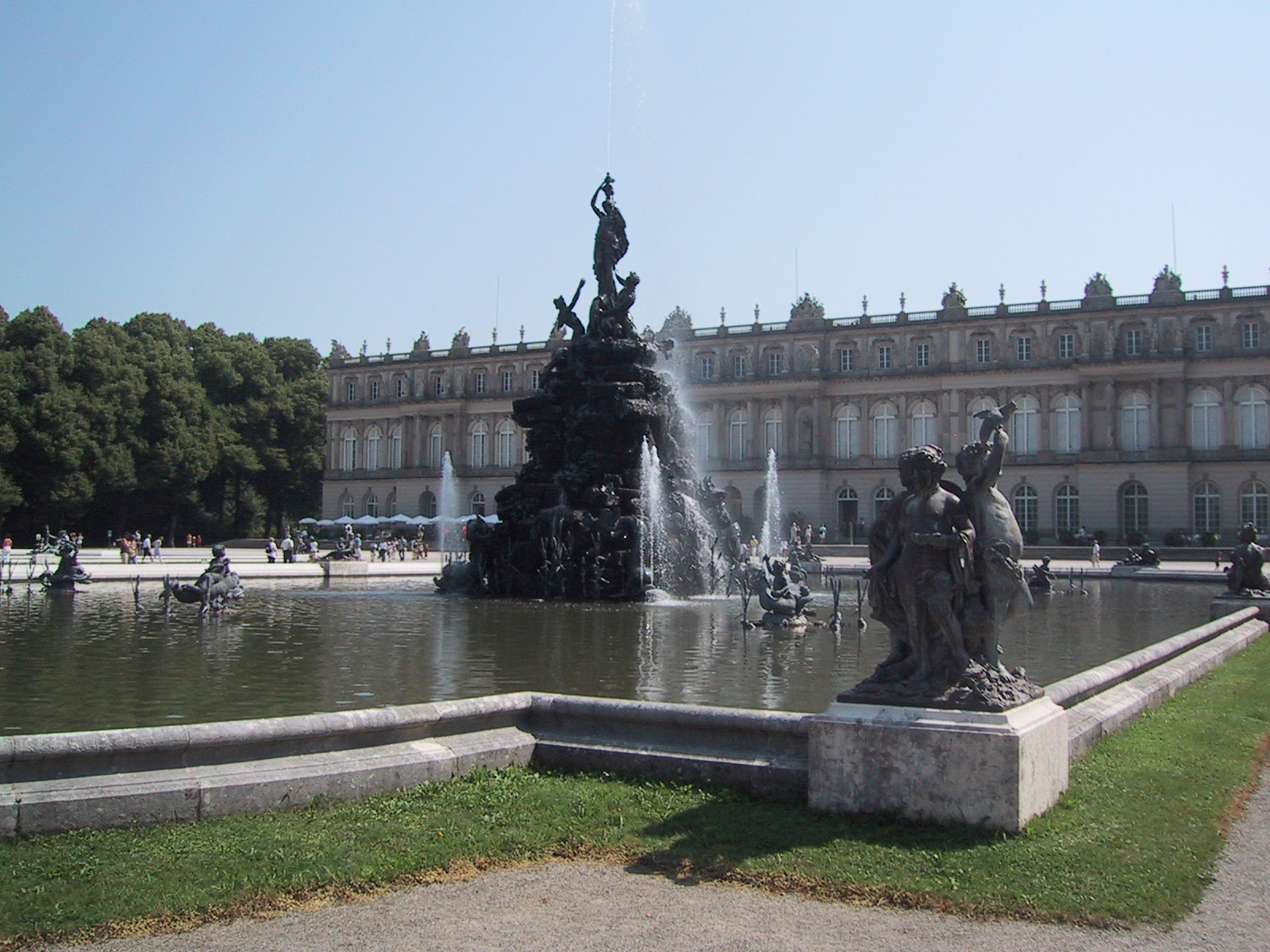 Herrenchiemsee Castle in 2004